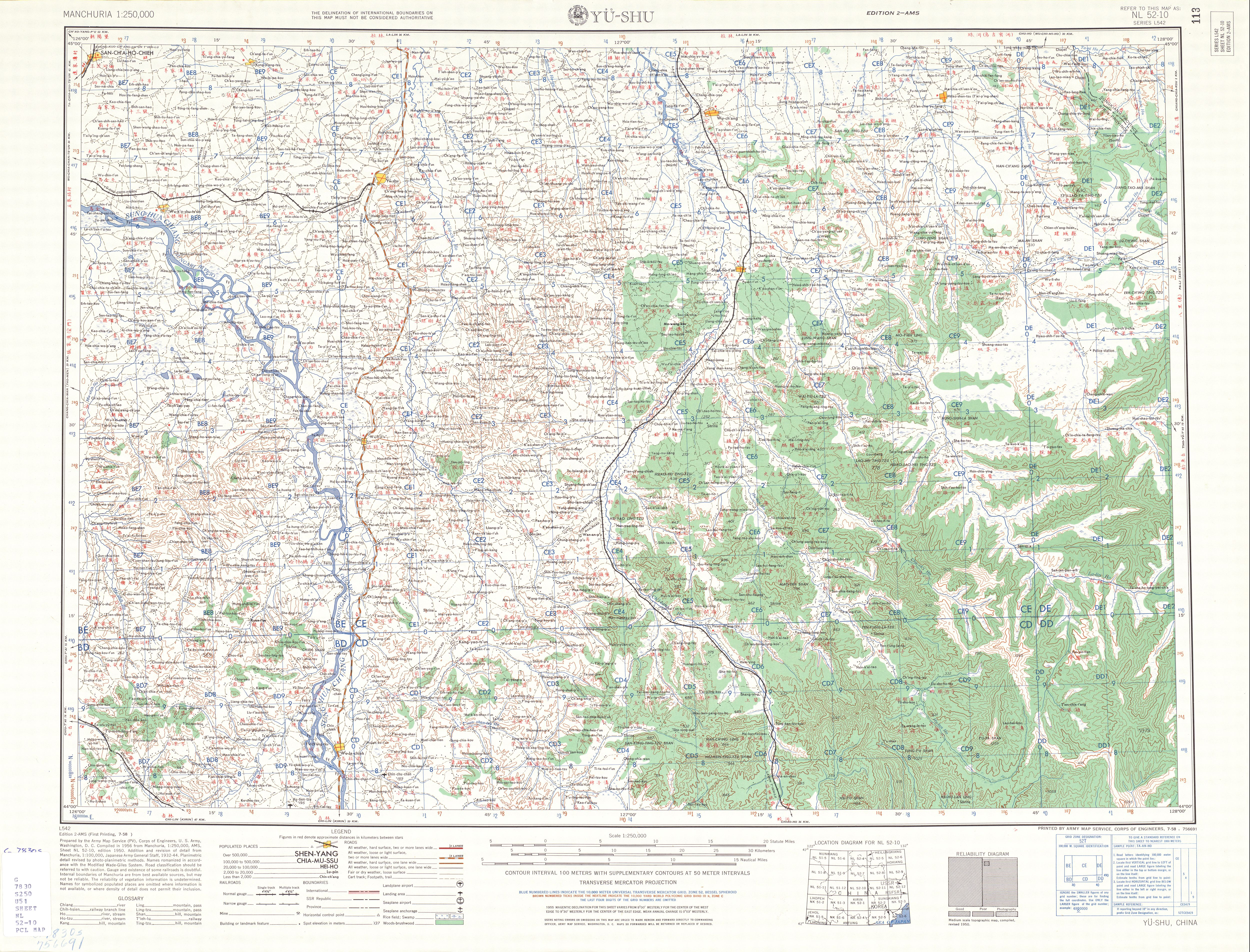 Manchuria AMS Topographic Maps